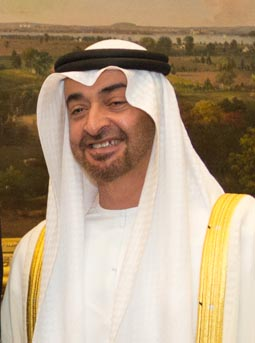 His Highness Sheikh Mohamed bin Zayed Al Nahyan, Crown Prince of Abu Dhabi, in the Roosevelt Room of the White House, Monday, May 15, 2017, in Washington, D.C. (Official White House Photo by Shealah Craighead)